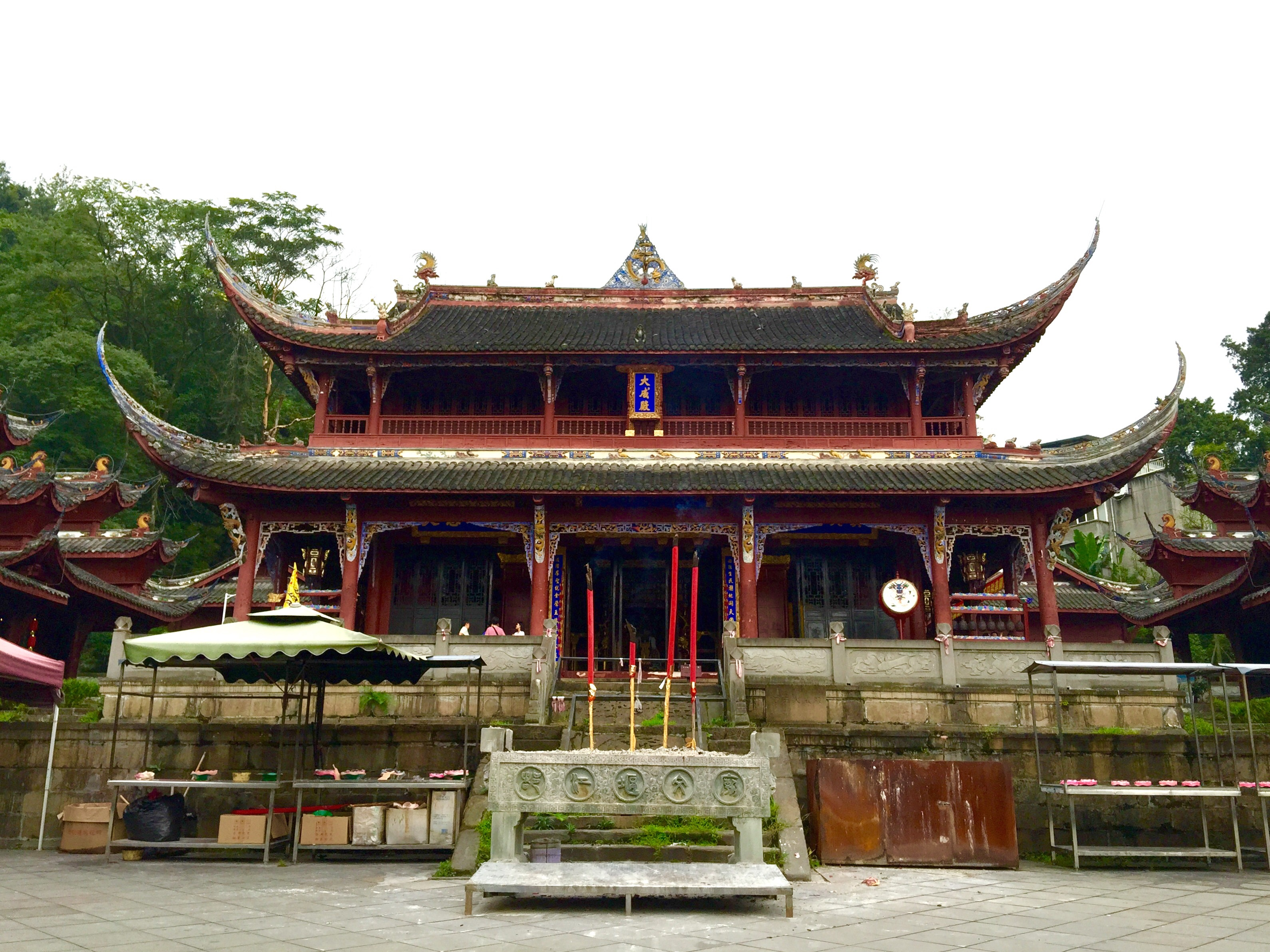 The Dacheng Hall of Guan County Temple of Confucius in Dujiangyan, Sichuan, China